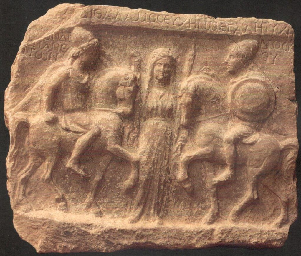 Votive plate with Dioscuri and Artemis, found in Demir Kapija, Macedonia